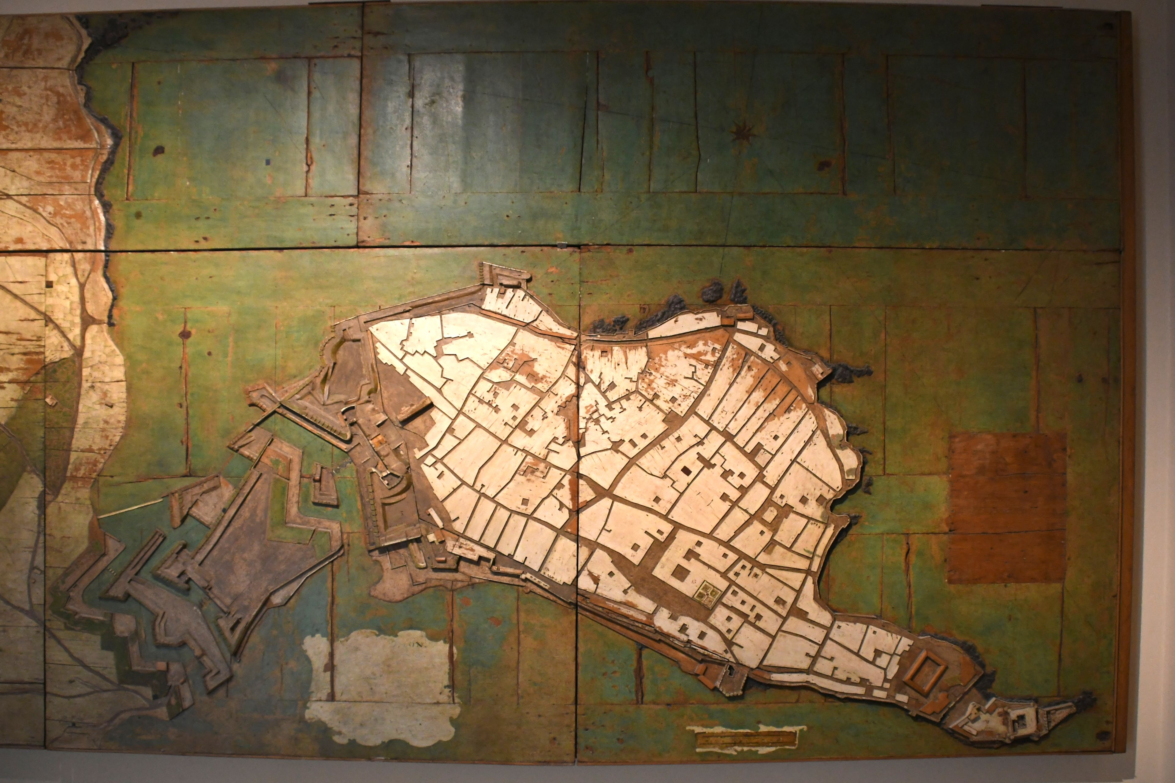 Siracusa, Galleria Regionale di Palazzo Bellomo, Relief map of Syracuse (Giovanni Carafa duca di Nojal 18th century)